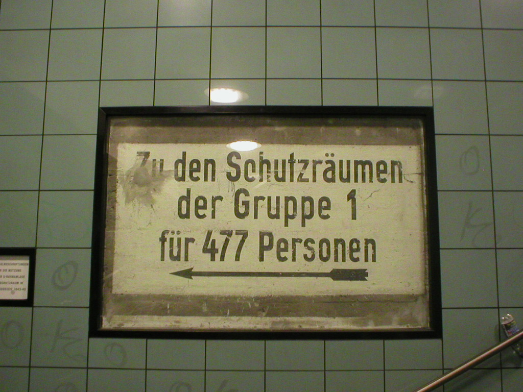 U-Bahn Berlin, station Hermannstraße (last station of line U8) with bunkerhints from the Second World War